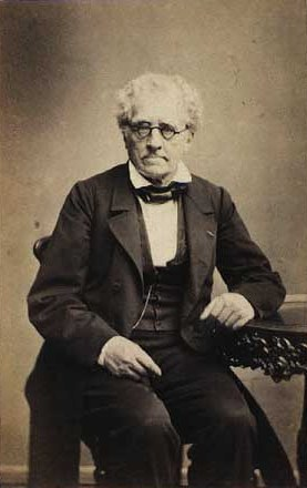 Nicolai Jonathan Meinert (1791-1877), Danish merchant and politician, MP